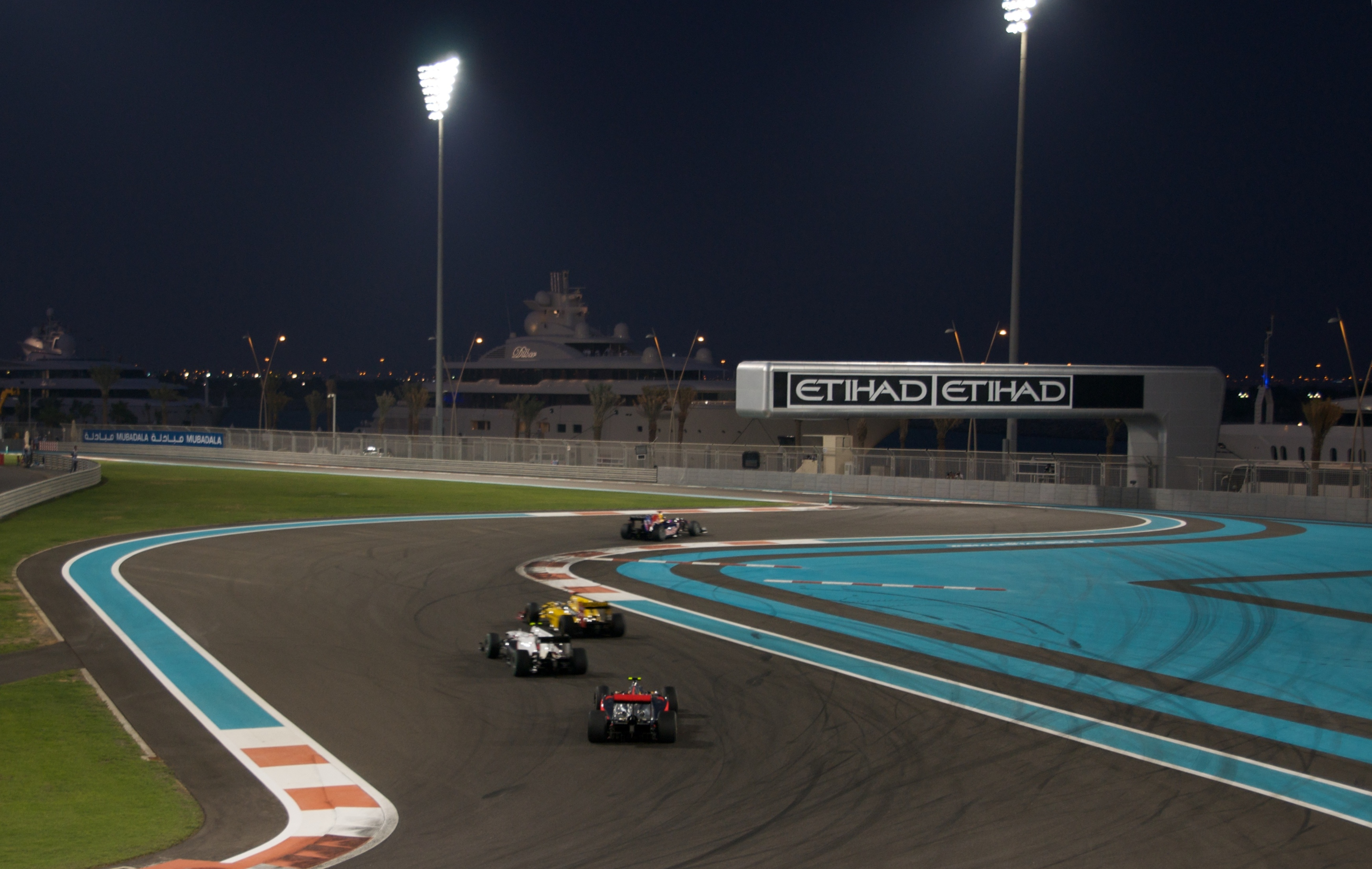 Abu dabi by night (Sebastian Vettel - Robert Kubica - Kamui Kobayashi - Lewis Hamilton). Rotated and cropped from File:Abu dabi by night.jpg